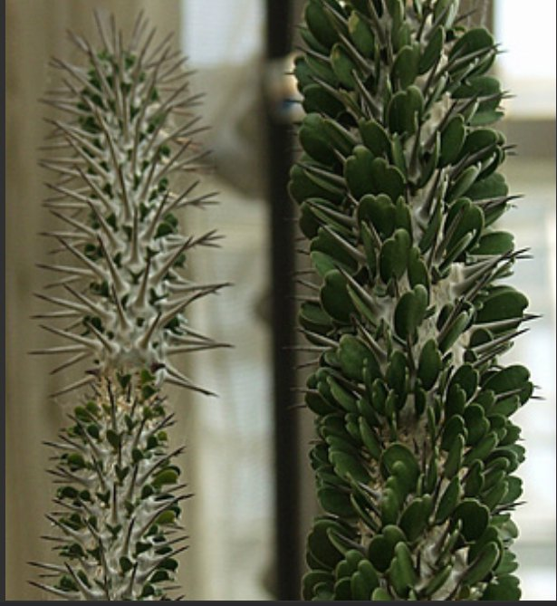 Alluandia montagnacii from Madagascar, as seen in the US Botanic Garden.